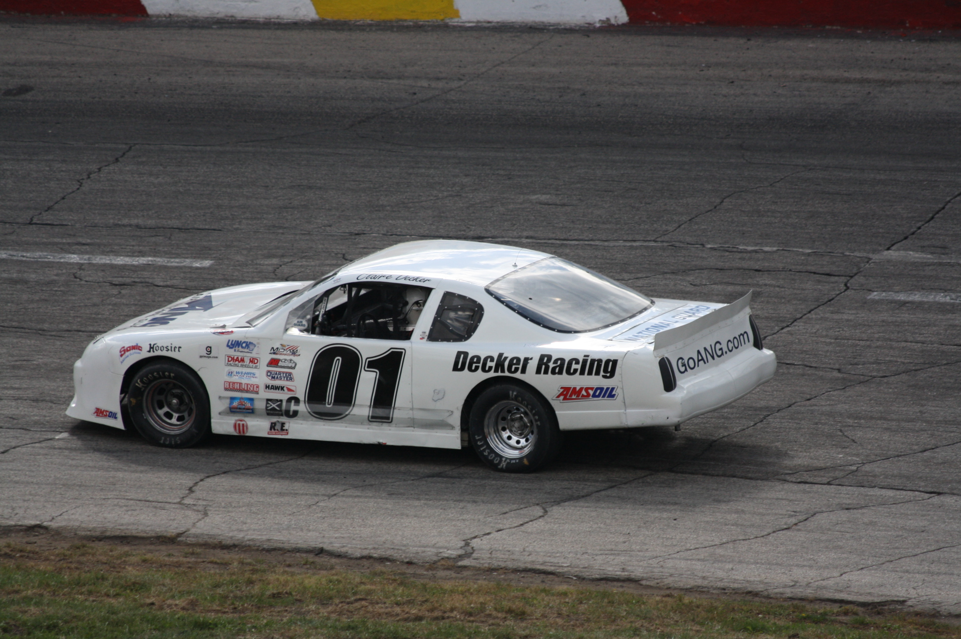 The Mid American Stock Car of Claire Decker at Rockford Speedway's National Short Track Championship race.